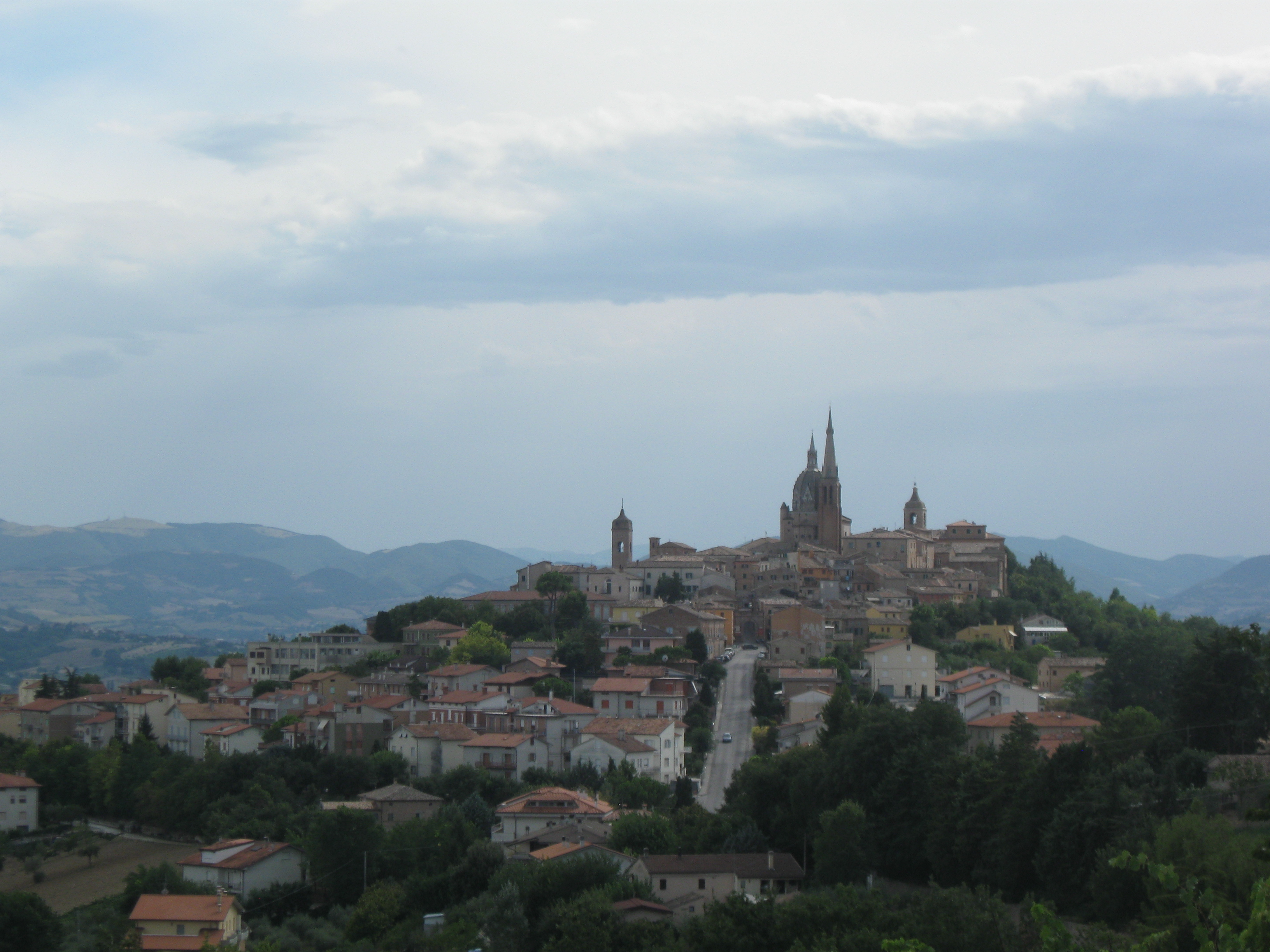 Ostra Vetere - Vista dalla Contrada Montale